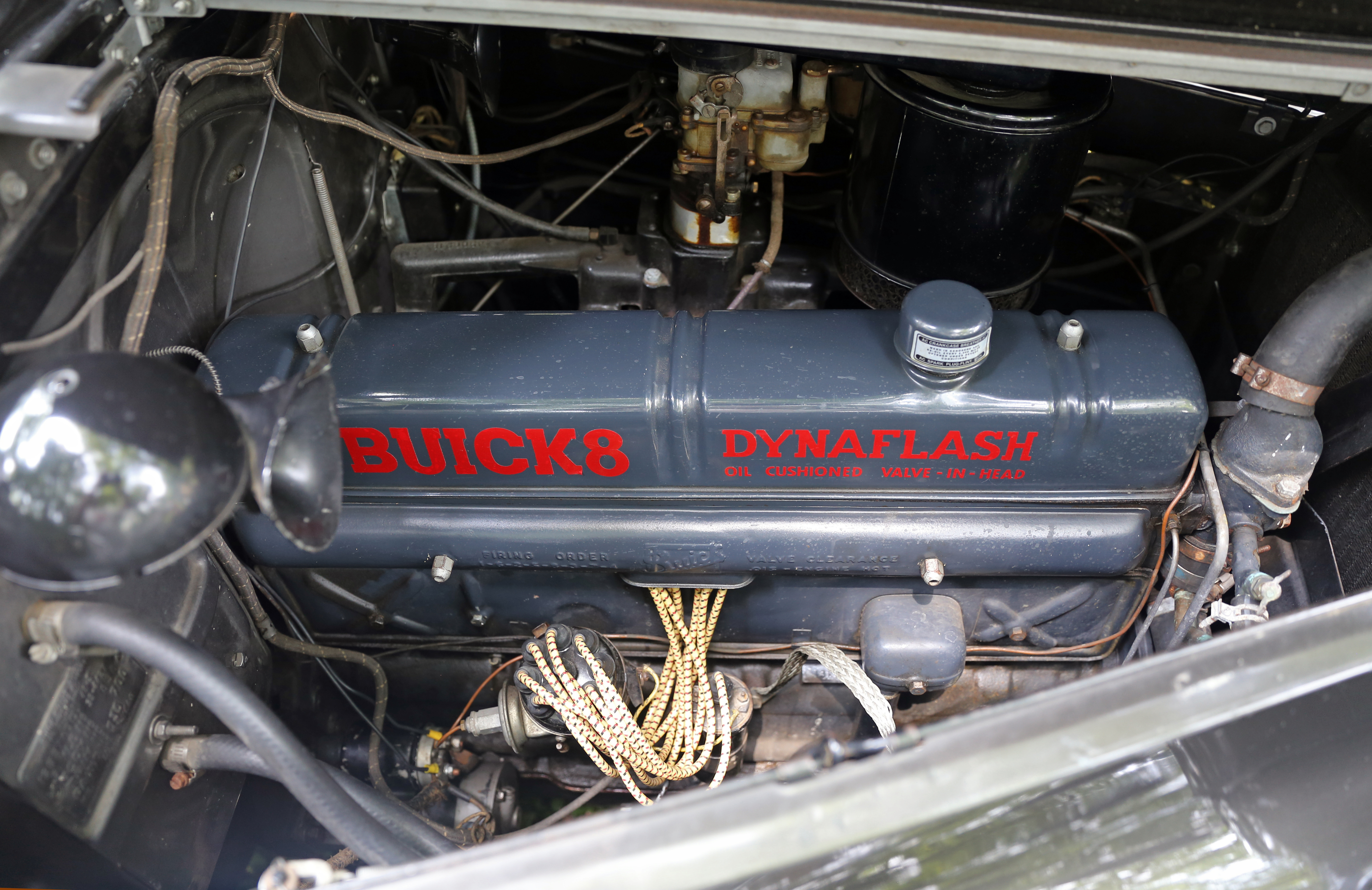 The straight-eight "Dynaflash" engine in a 1939 Buick Special Series 40 Business Coupé (body style 46).